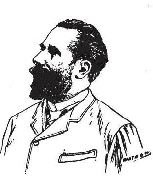 Portrait of the Occitan writer Baptista Bonet